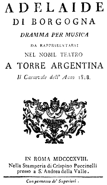 Gioachino Rossini - Adelaide di Borgogna - titlepage of the libretto - Rome 1818